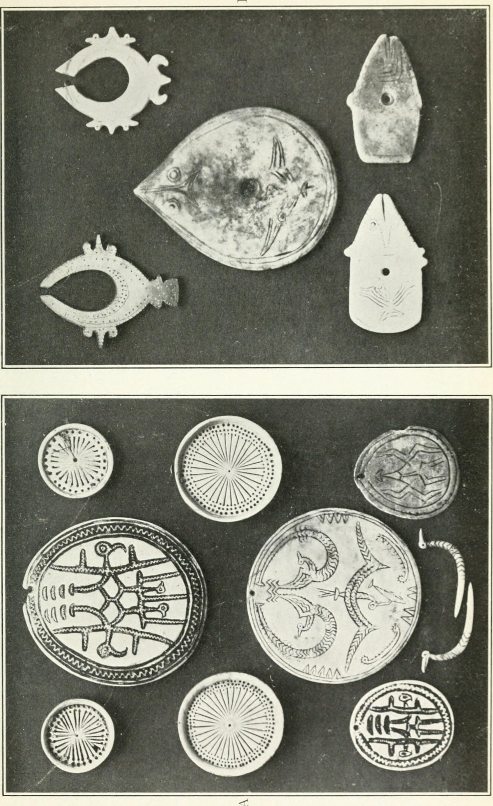 Title: Dictionary and grammar of the language of Saa and Ulawa, Solomon islands Year: 1918 (1910s) Authors: Ivens, Walter G. (Walter George), b. 1871 Subjects: Saa language Ulawa language Missions -- Melanesia Melanesian languages Melanesia Publisher: Washington : Carnegie institution of Washington Text Appearing Before Image: IVFAS IM.ATi: s Text Appearing After Image: IVENS PLATE 9